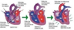 Fases del ciclo cardíaco